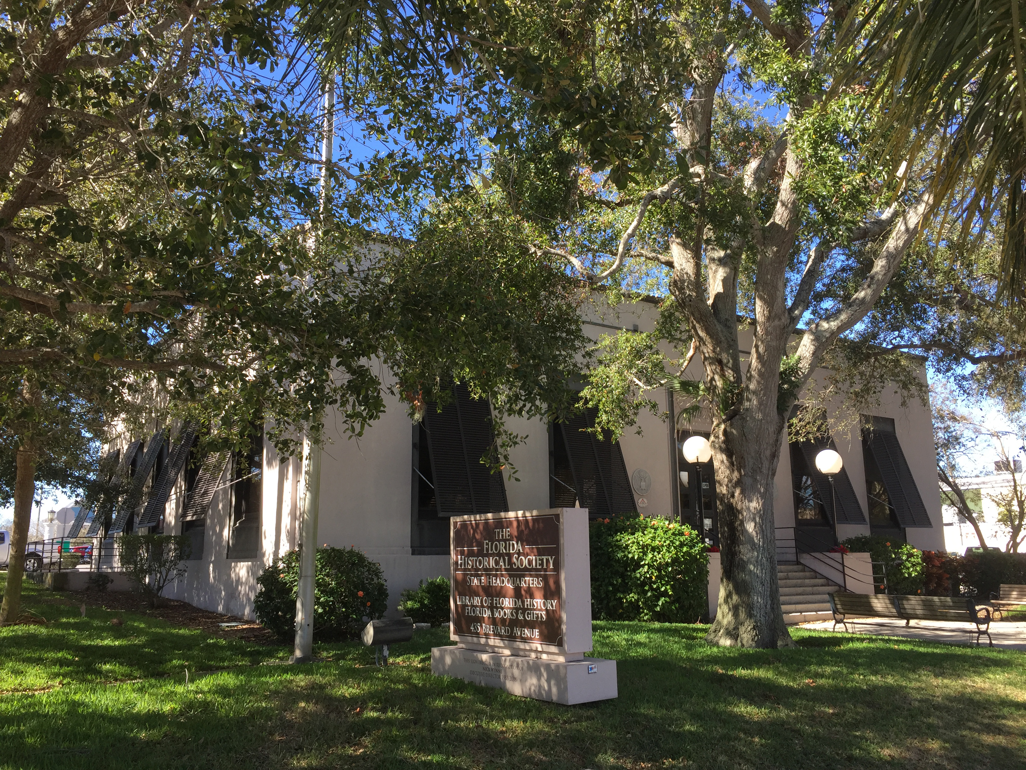 The Florida Historical Society State Headquarters / Library of Florida History, 435 Brevard Avenue, Cocoa, Florida at the old historic Cocoa Post Office building in Cocoa Village.